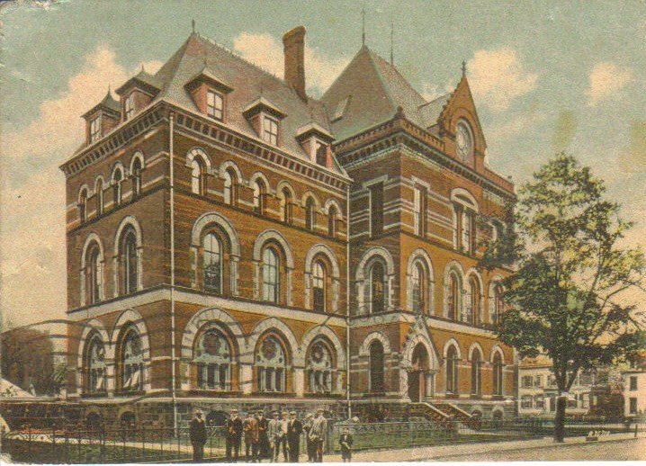 Postcard picture of Peabody Museum of Natural History in New Haven (picture side of postcard is cropped to show only the picture)